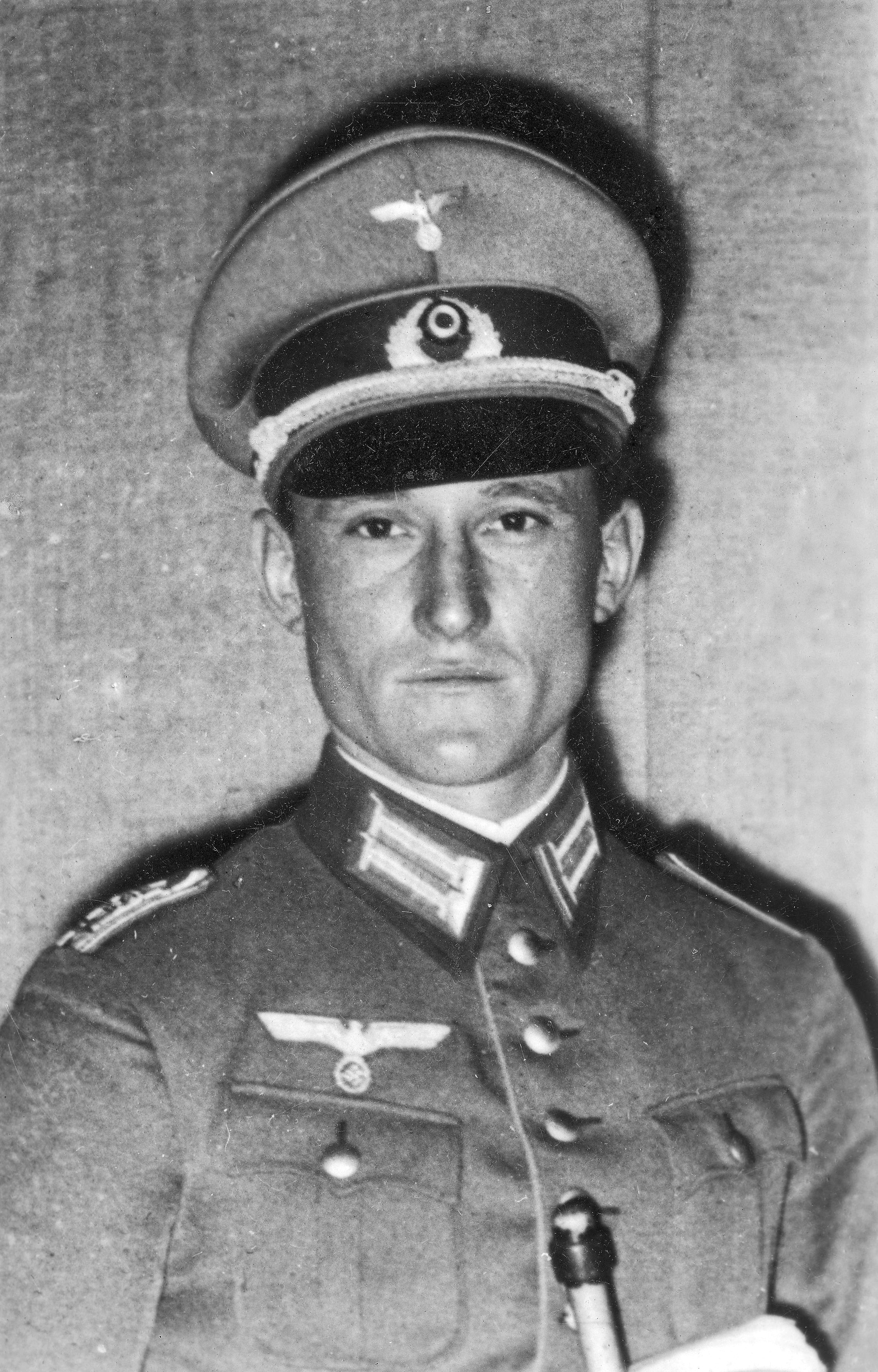 Heinz Brandt, German soldier - situational photography.